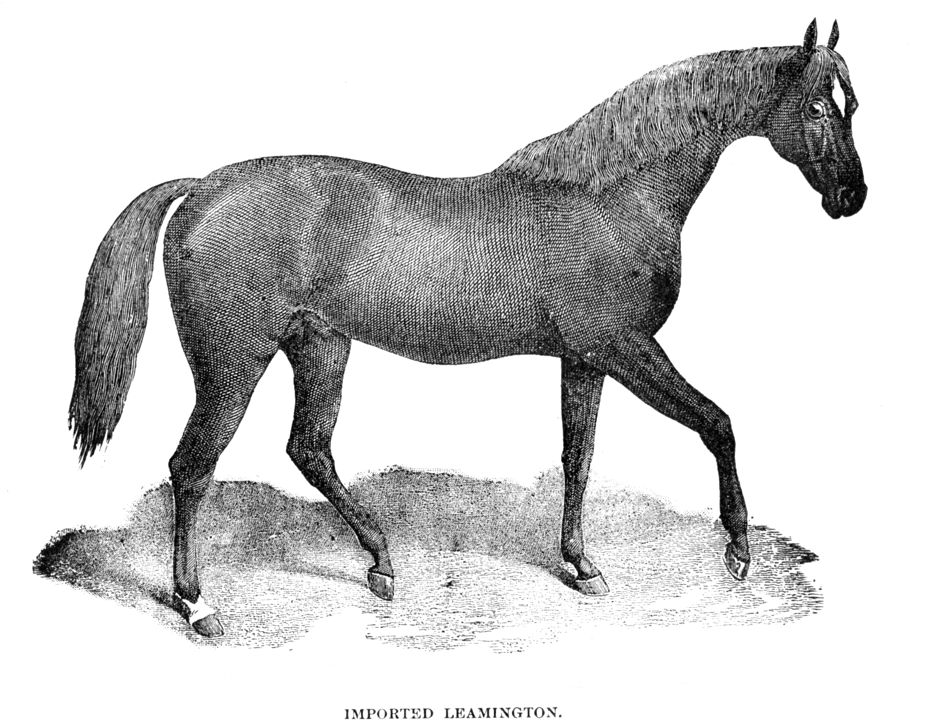 Leamington, a Thoroughbred stallion imported into the United States. Foaled in 1853.